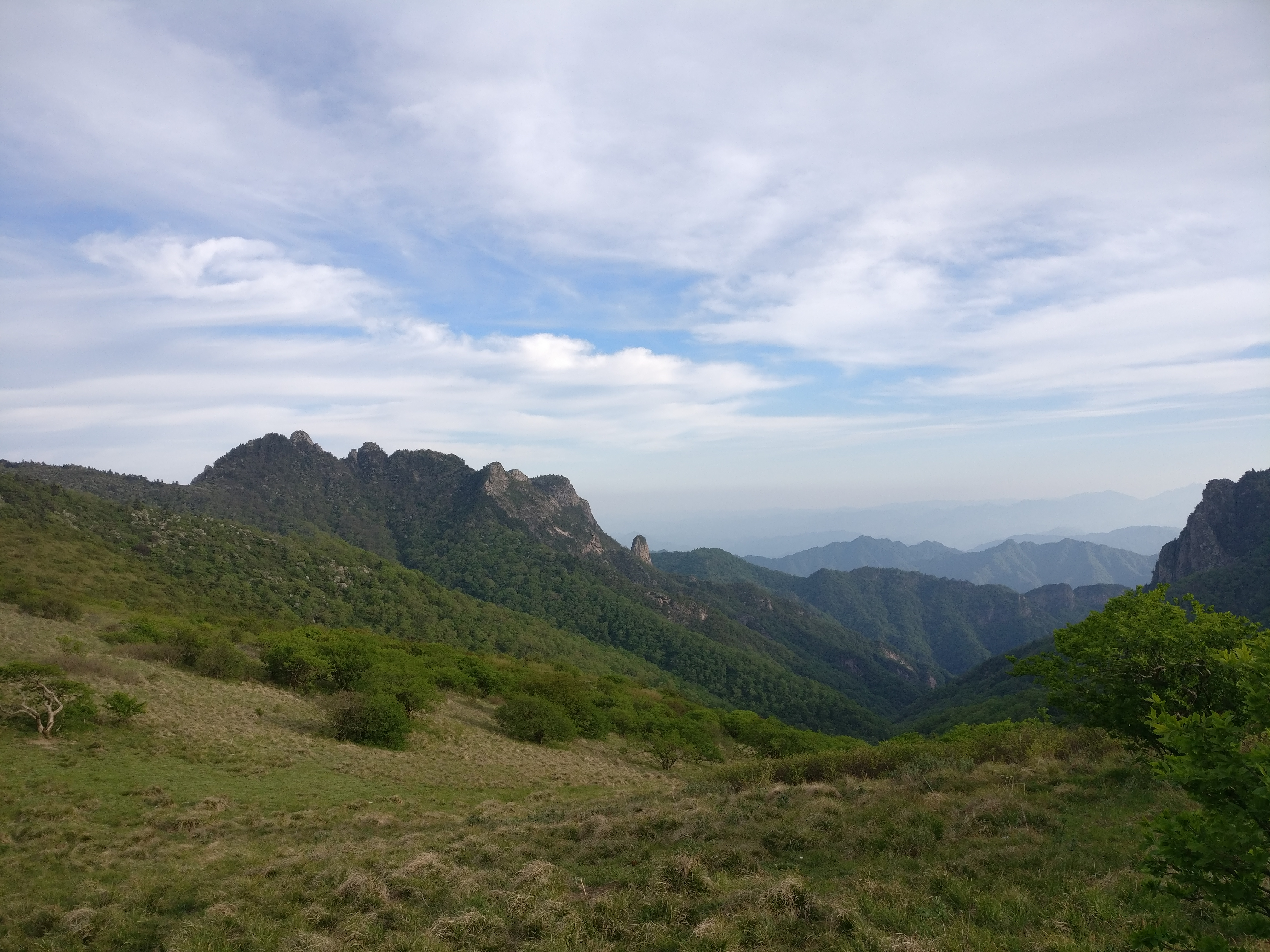 shoot on 2017/05/28 Xi'an, Shaanxi, China, by charlie Yan part of the mountains